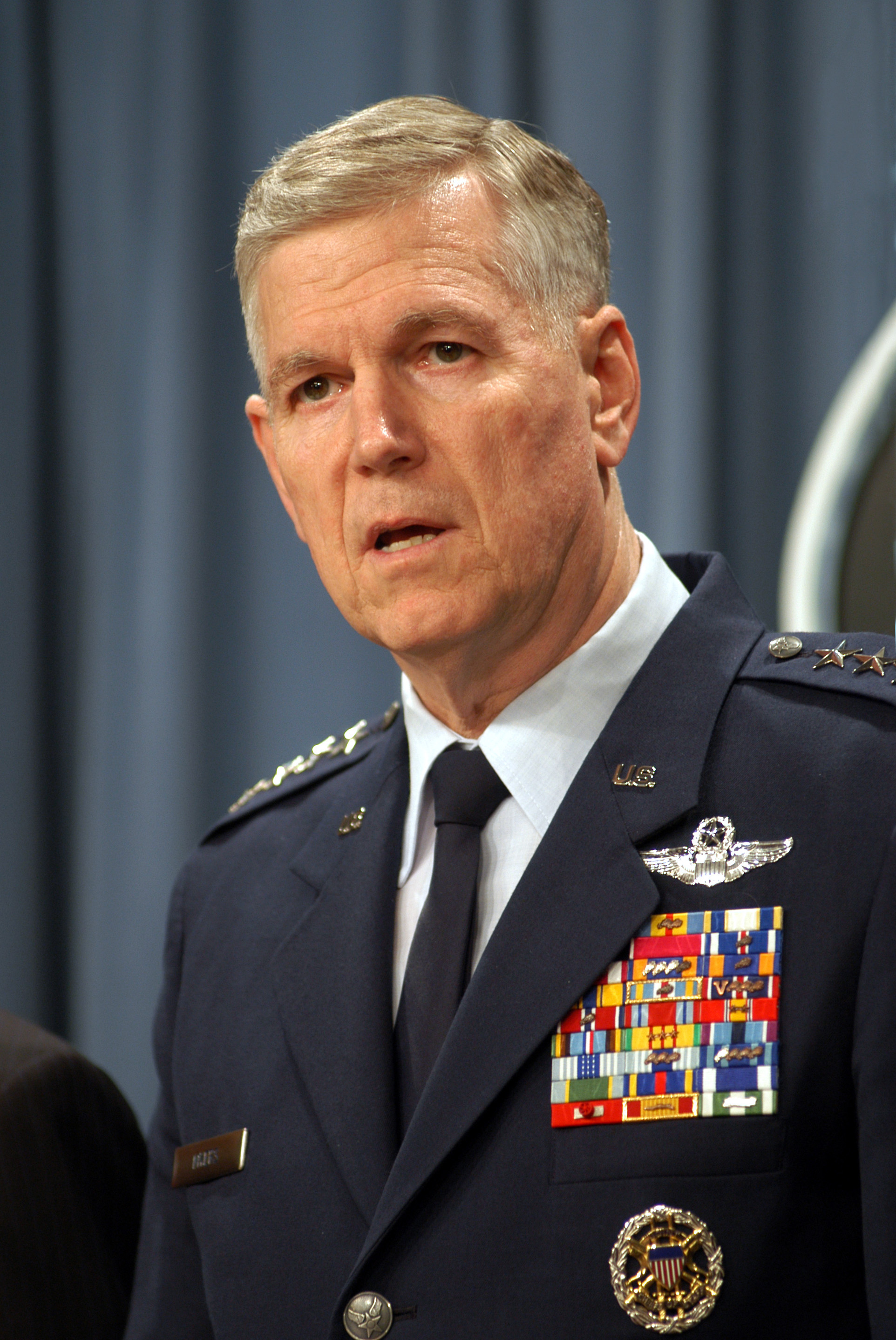 Arlington, Va. (Mar. 20, 2003) -- U.S. Air Force Gen. Richard B. Myers, Chairman of the Joint Chiefs of Staff briefs media reporters in the Pentagon after the first actions are taken against Iraq in support of Operation Iraqi Freedom. General Myers and The Honorable Donald H. Rumsfeld, Secretary of Defense, updated reporters on last night’s rapid strike on a targets of opportunity in Baghdad. Department of Defense photo courtesy of R.D. Ward. (RELEASED)